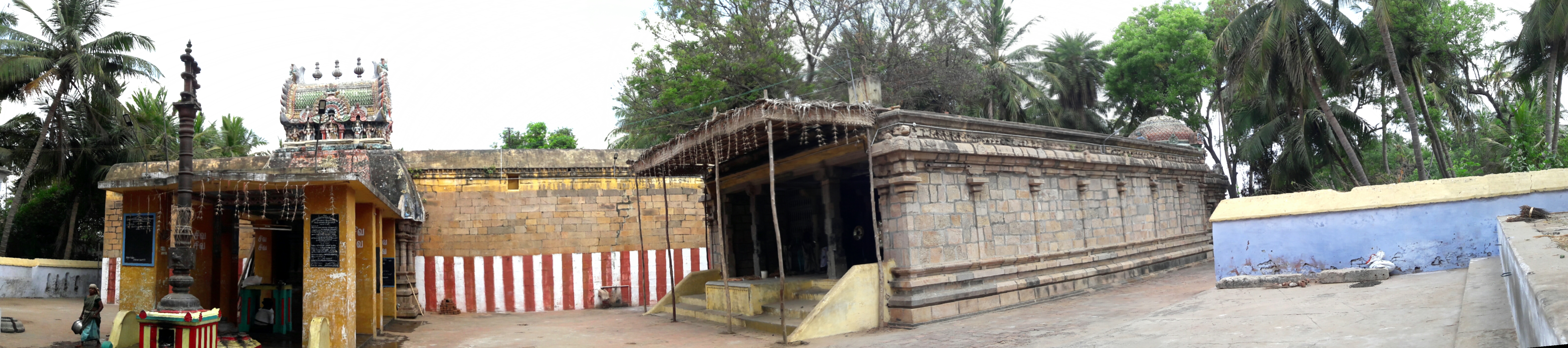 Neyyadiyappar temple Thillaistanam